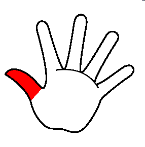 Black and white outline of left hand